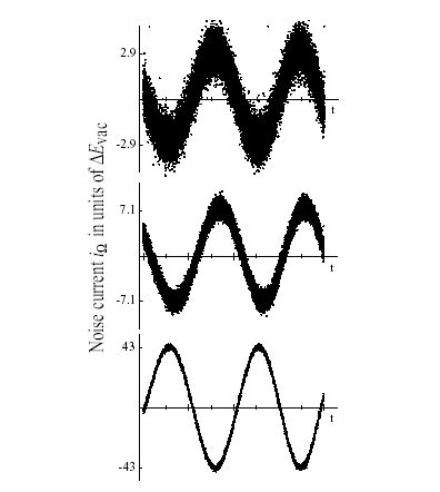 measured quantum noise of three coherent states